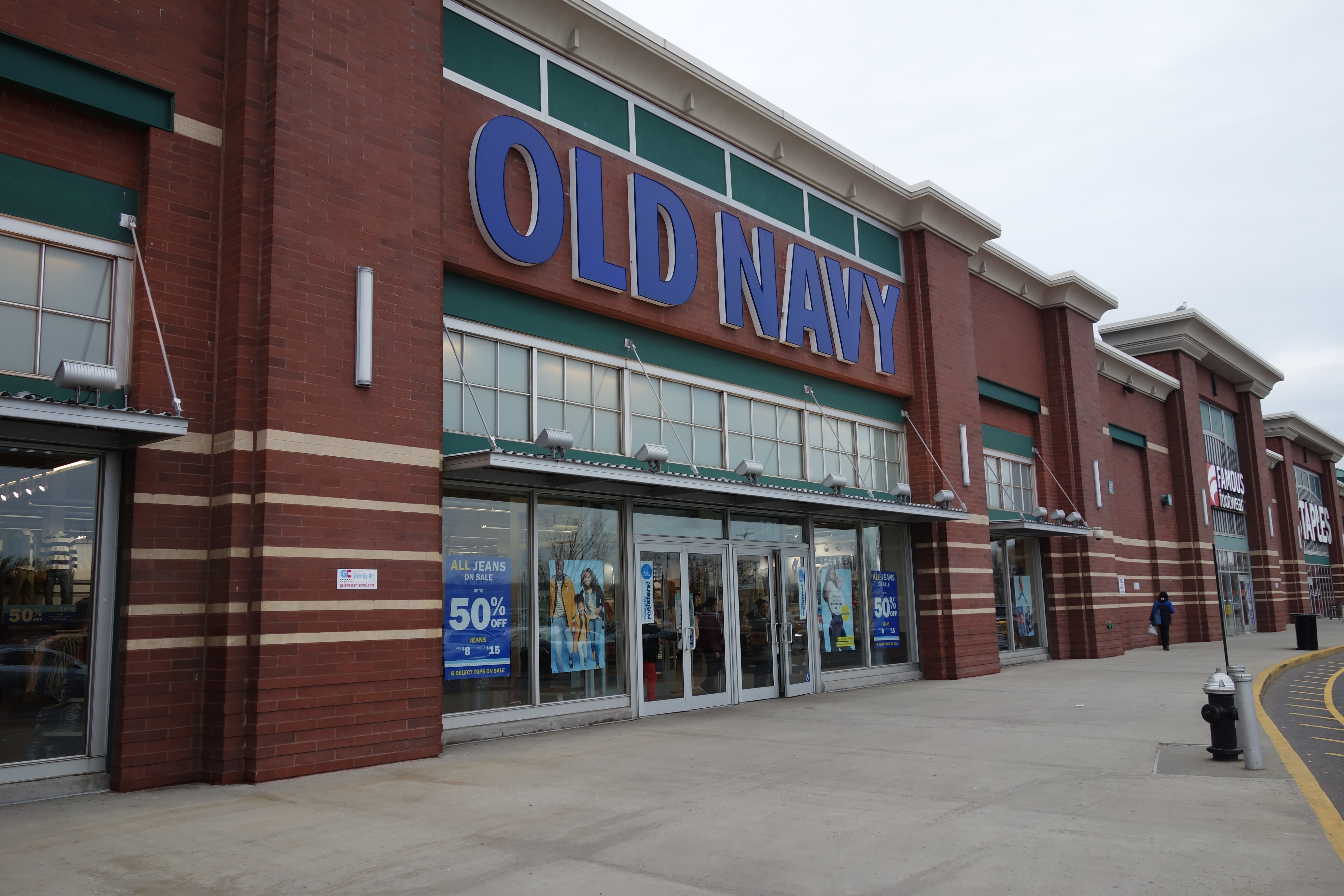 The Old Navy store of the Gateway Center South mall, on Gateway Plaza west of Erskine Street in Spring Creek, Brooklyn.